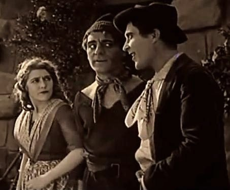 L. to R. : Mary Pickford, Jean De Briac, and Raymond Bloomer in The Love Light (1921) - cropped screenshot